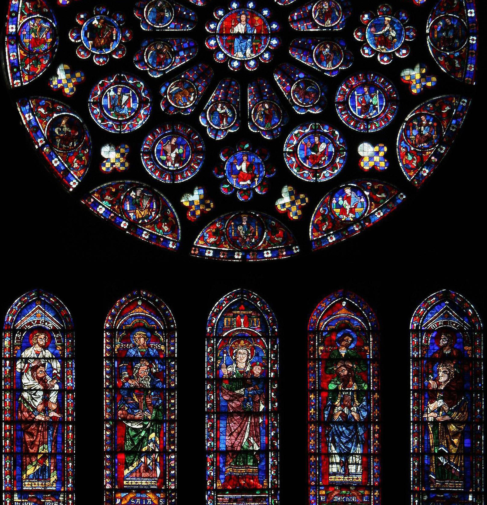 A view of the south rose window of Chartres Cathedral, where the prophets and evangelists on their shoulders are shown